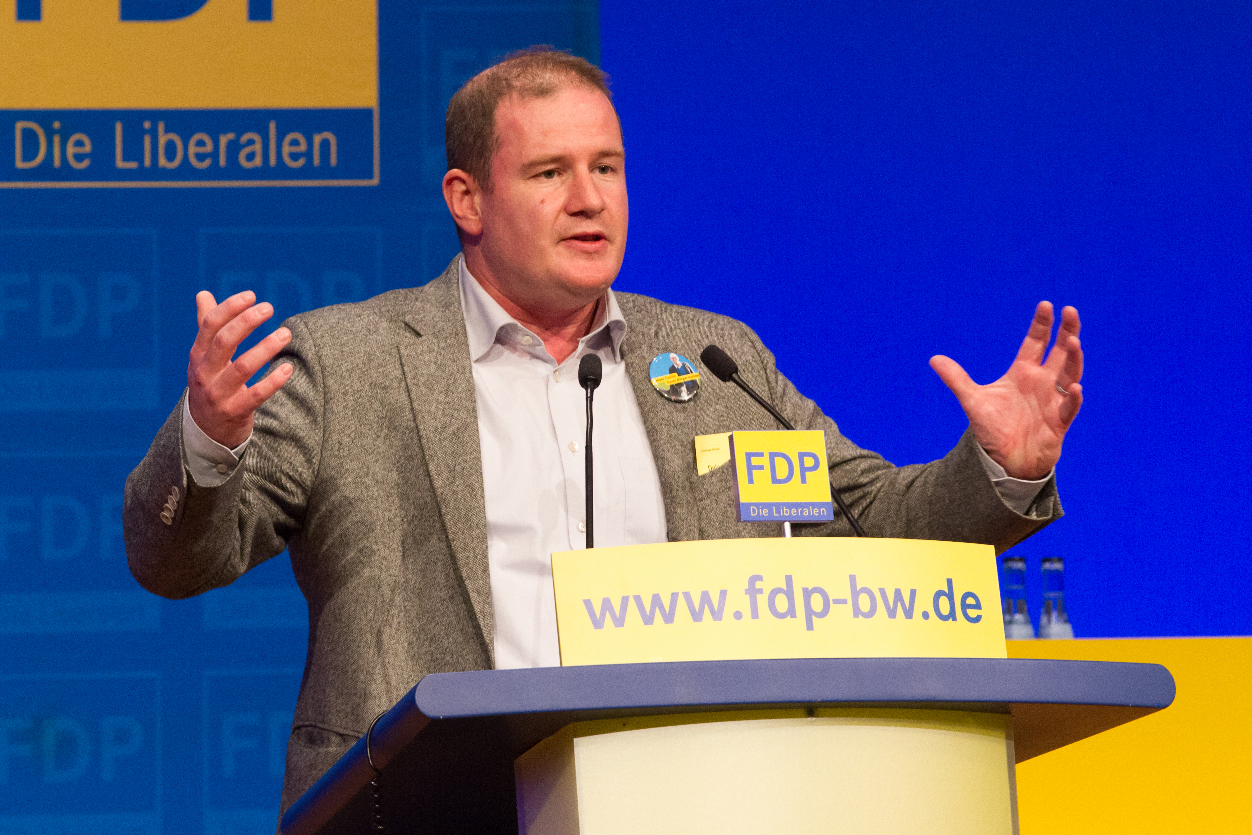 Series: 112th regular party convention of the FDP Baden-Württemberg in Stuttgart on January 5th, 2015 Image: Andreas Glück